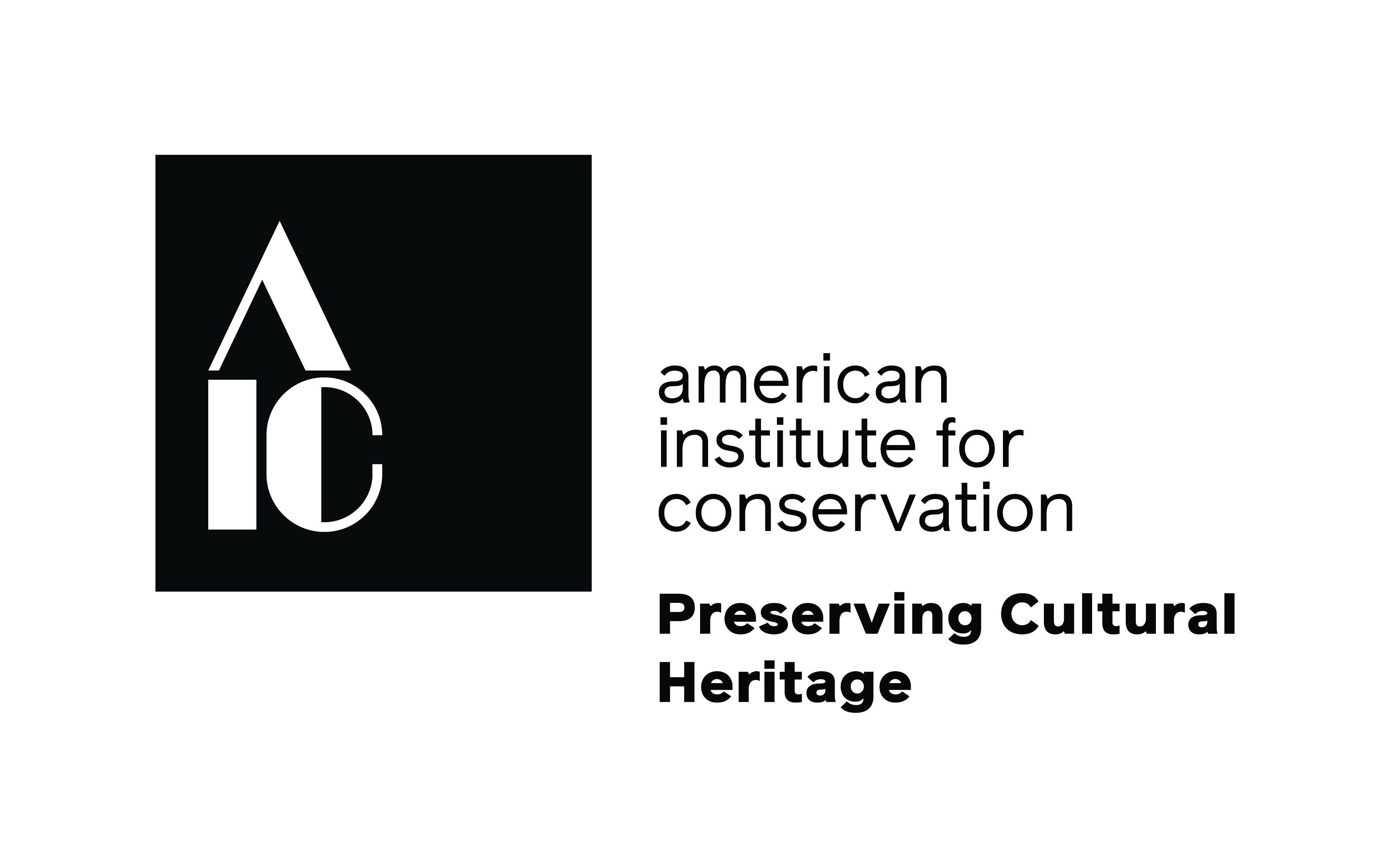 Logo for the American Institute for Conservation (AIC) including the tagline "Preserving Cultural Heritage"